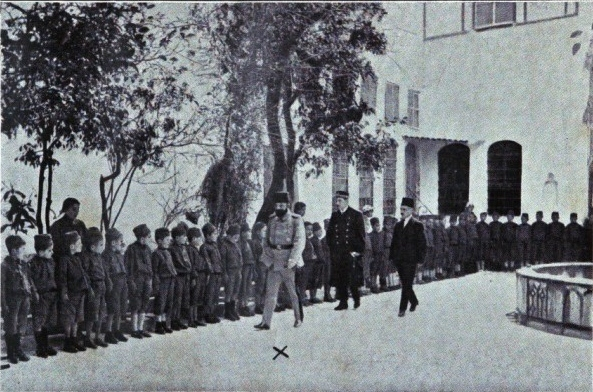 Djemal Pasha, Nusret Bey, and Cerkez Hasan inspecting the Armenian orphans.